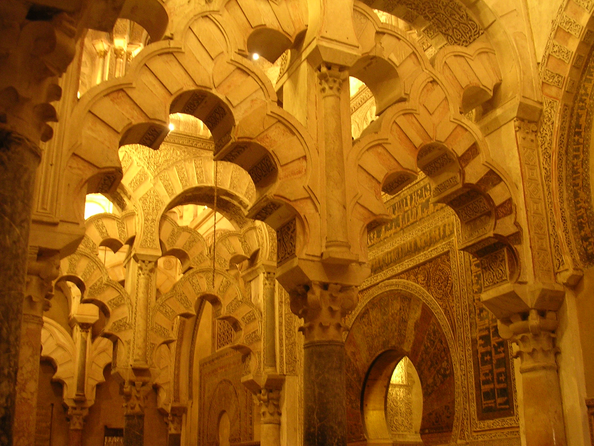 Córdoba, Spain